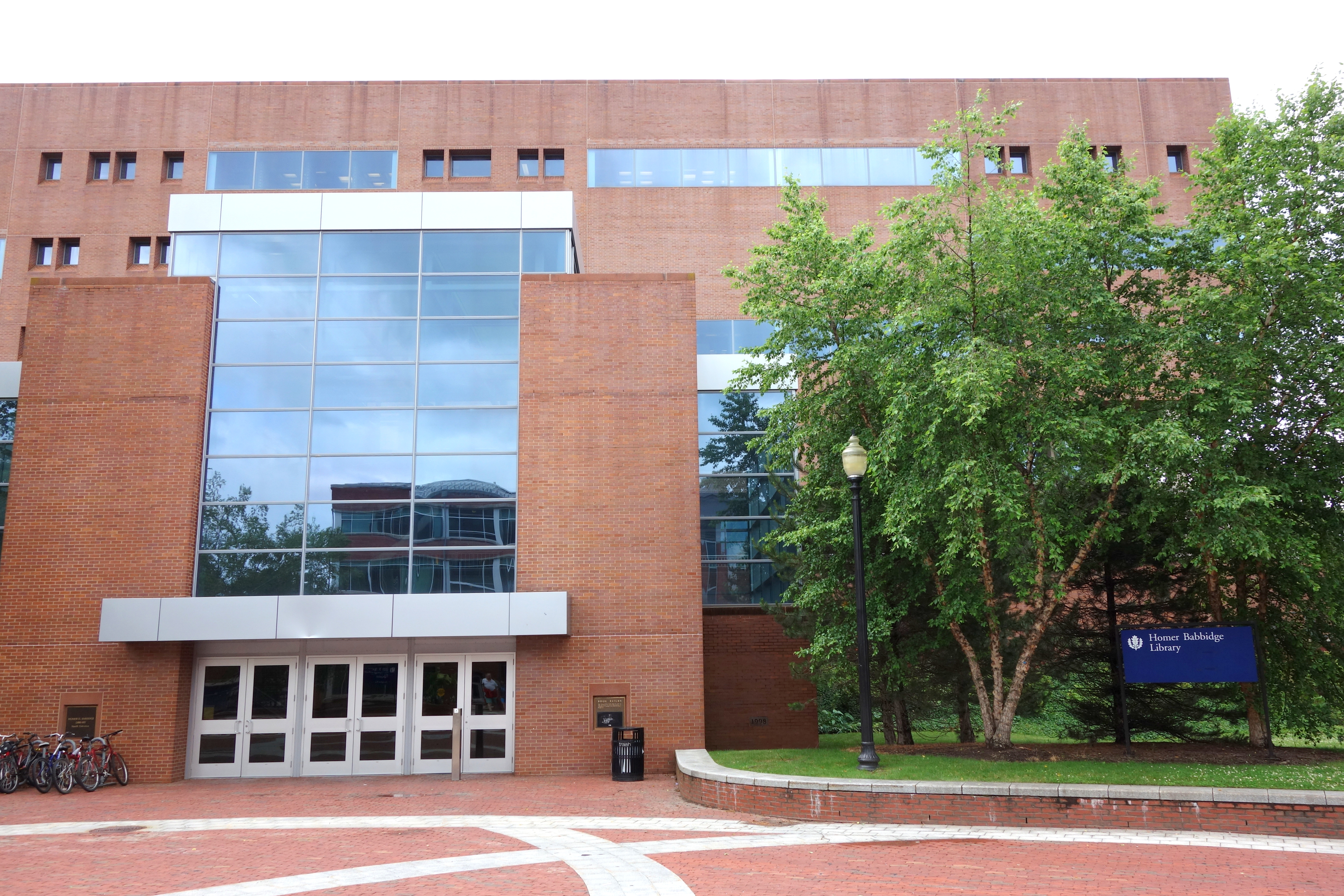 Building on the campus of the University of Connecticut, Storrs, Connecticut, USA.